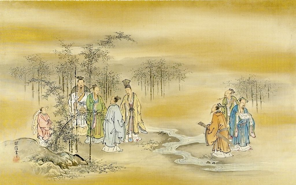 Seven Sages of the Bamboo Grove (Chikurin shichikenjin), Early Edo period, circa 1681 H. 26.8 cm x W. 43.0 cm